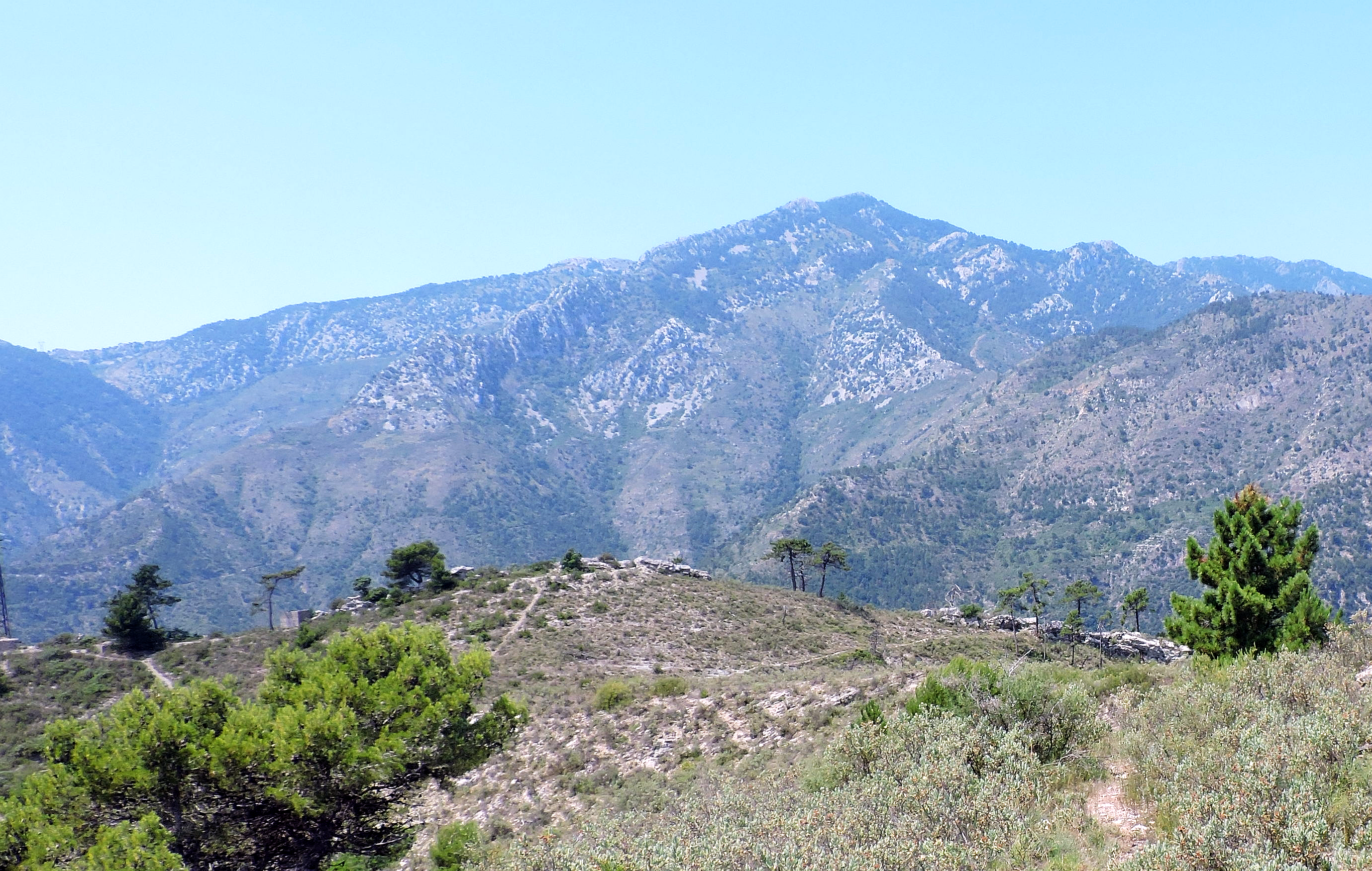 Monte Grammondo and passo del Cornà from monte Pozzo